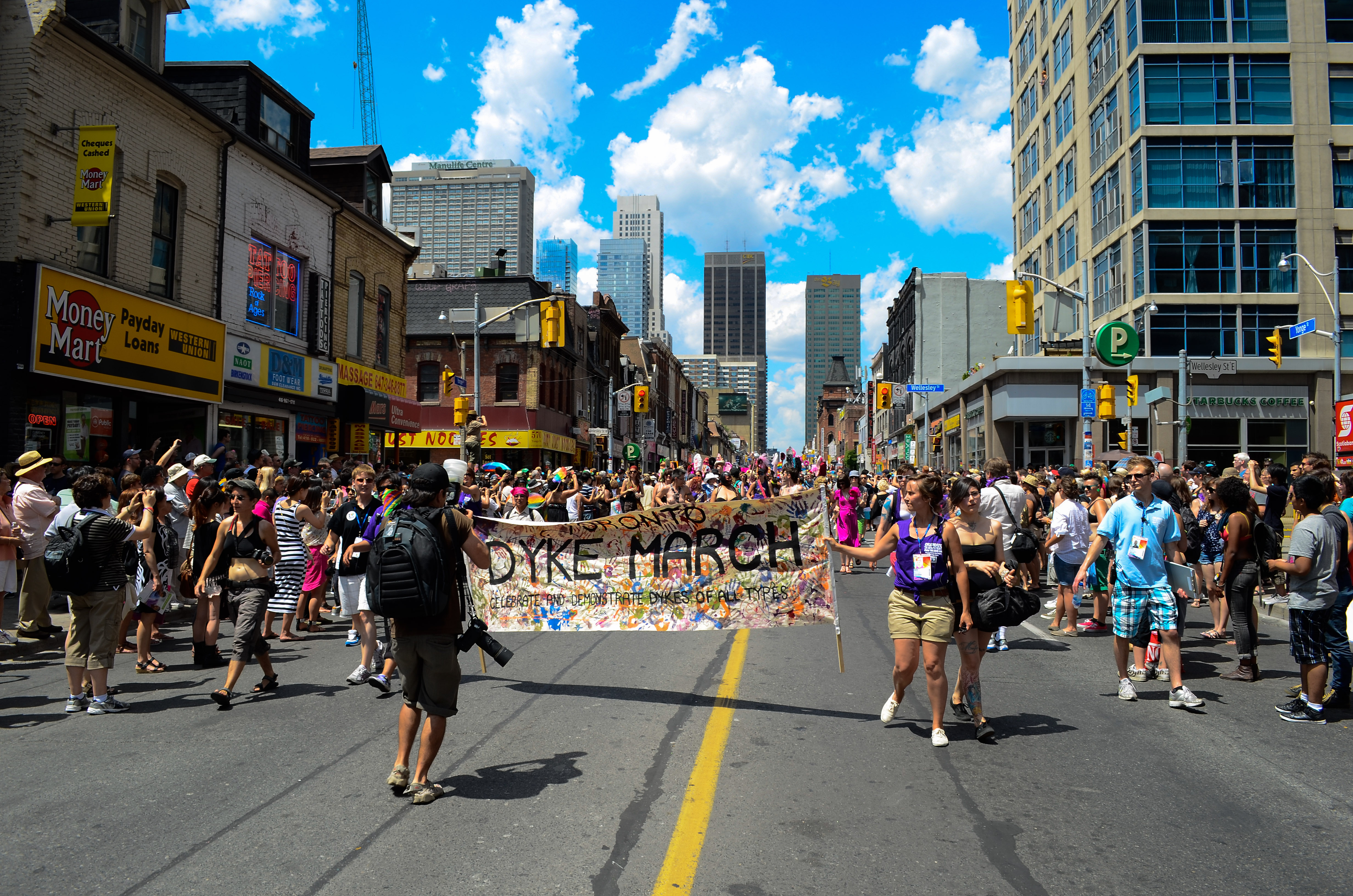 The Dyke March during Pride Toronto 2012. Toronto, Ontario, Canada.